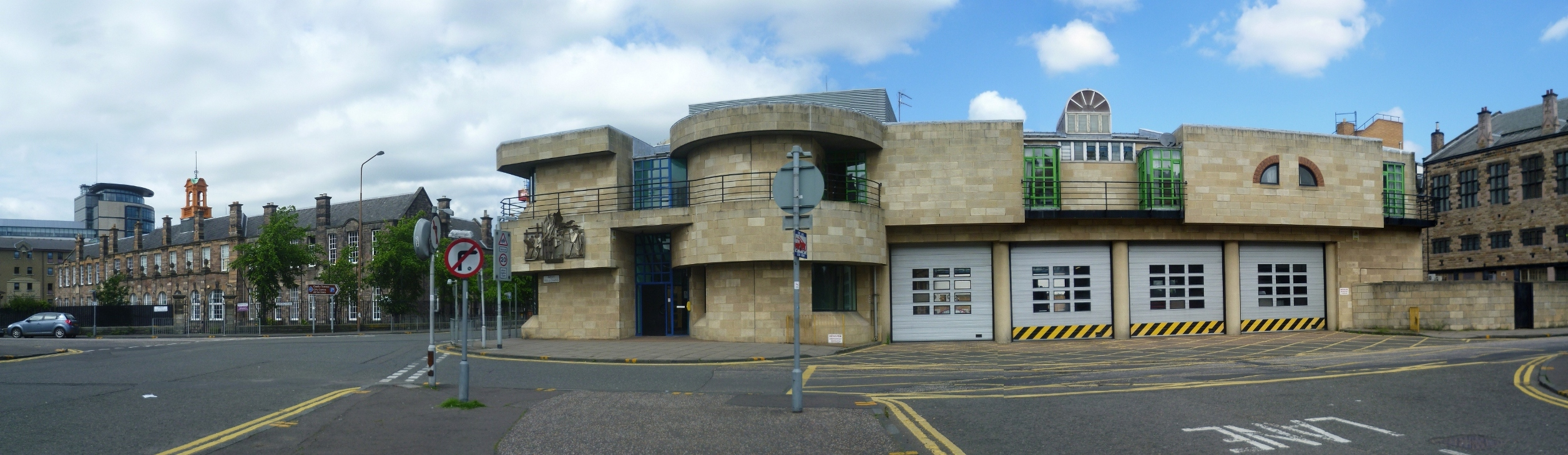 Tollcross Primary School and Fire Station (composite photograph)